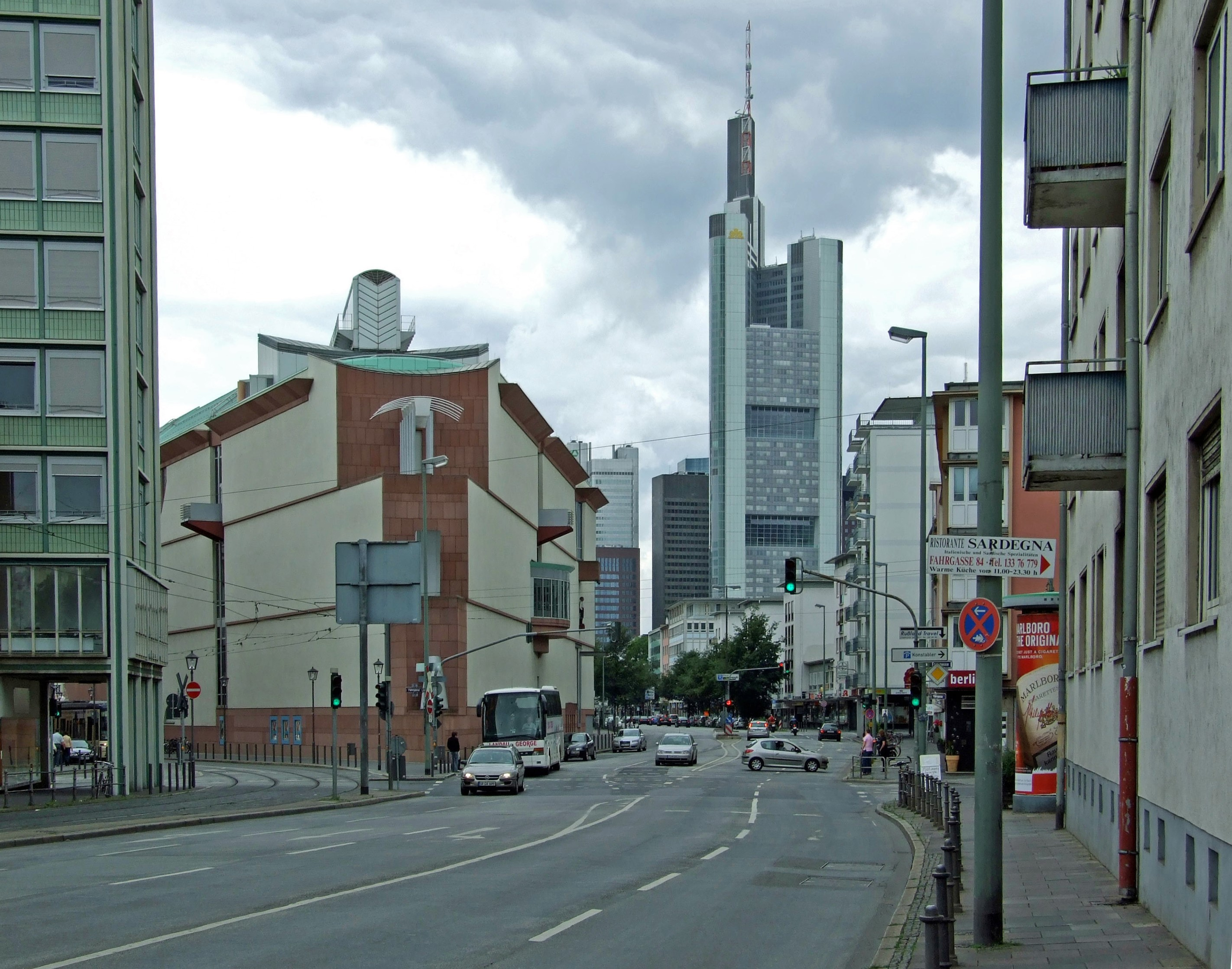 beginning of "Berliner Strasse" (right beside of "MMK") behind the end of "Battonstrasse" and intersection with "Fahrgasse" in Altstadt (Frankfurt am Main)